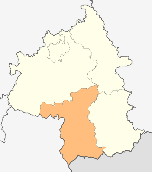 Map of Elhovo municipality, Yambol Province